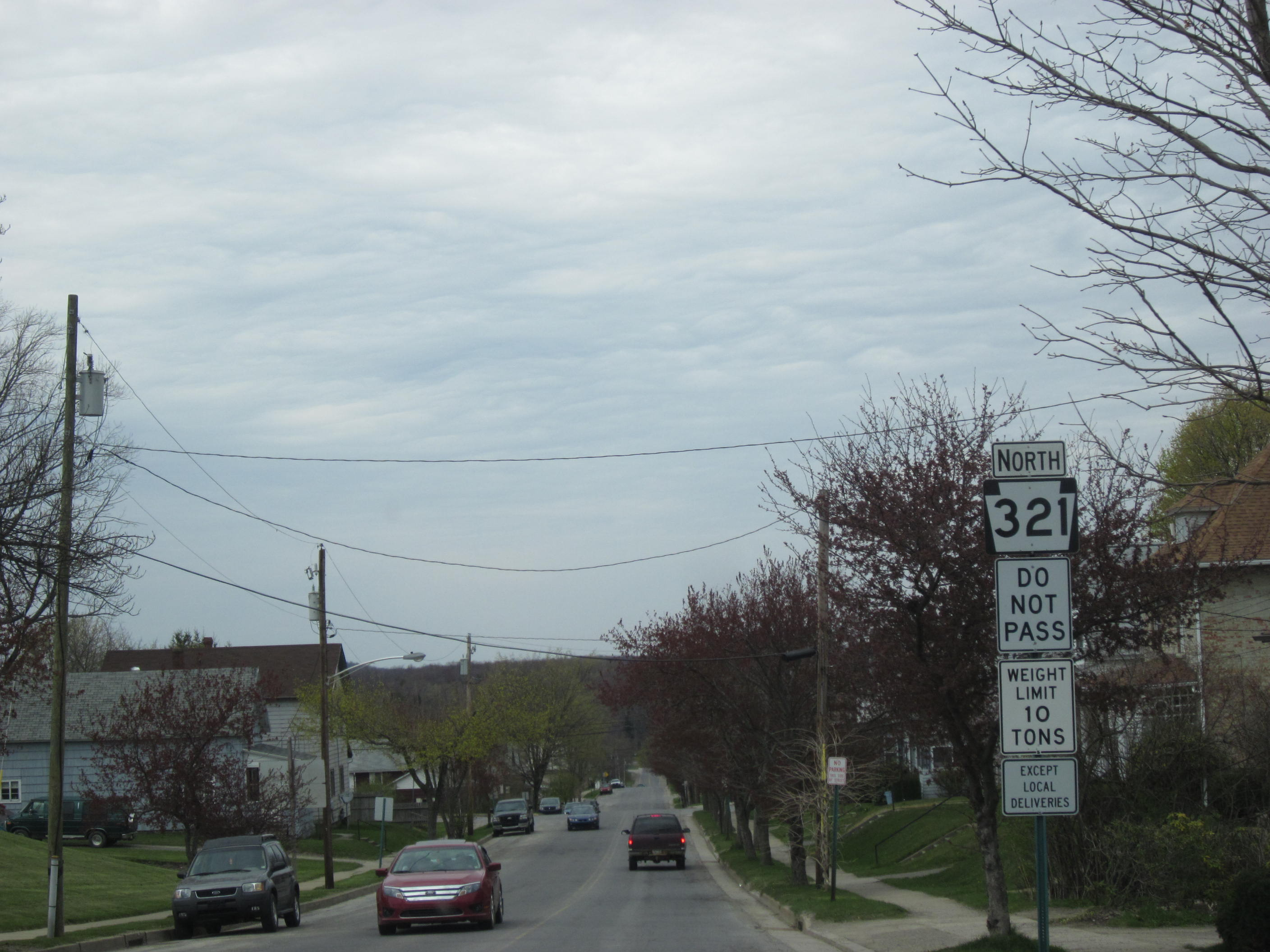 Northbound Pennsylvania Route 321 on Hacker Street in Kane.